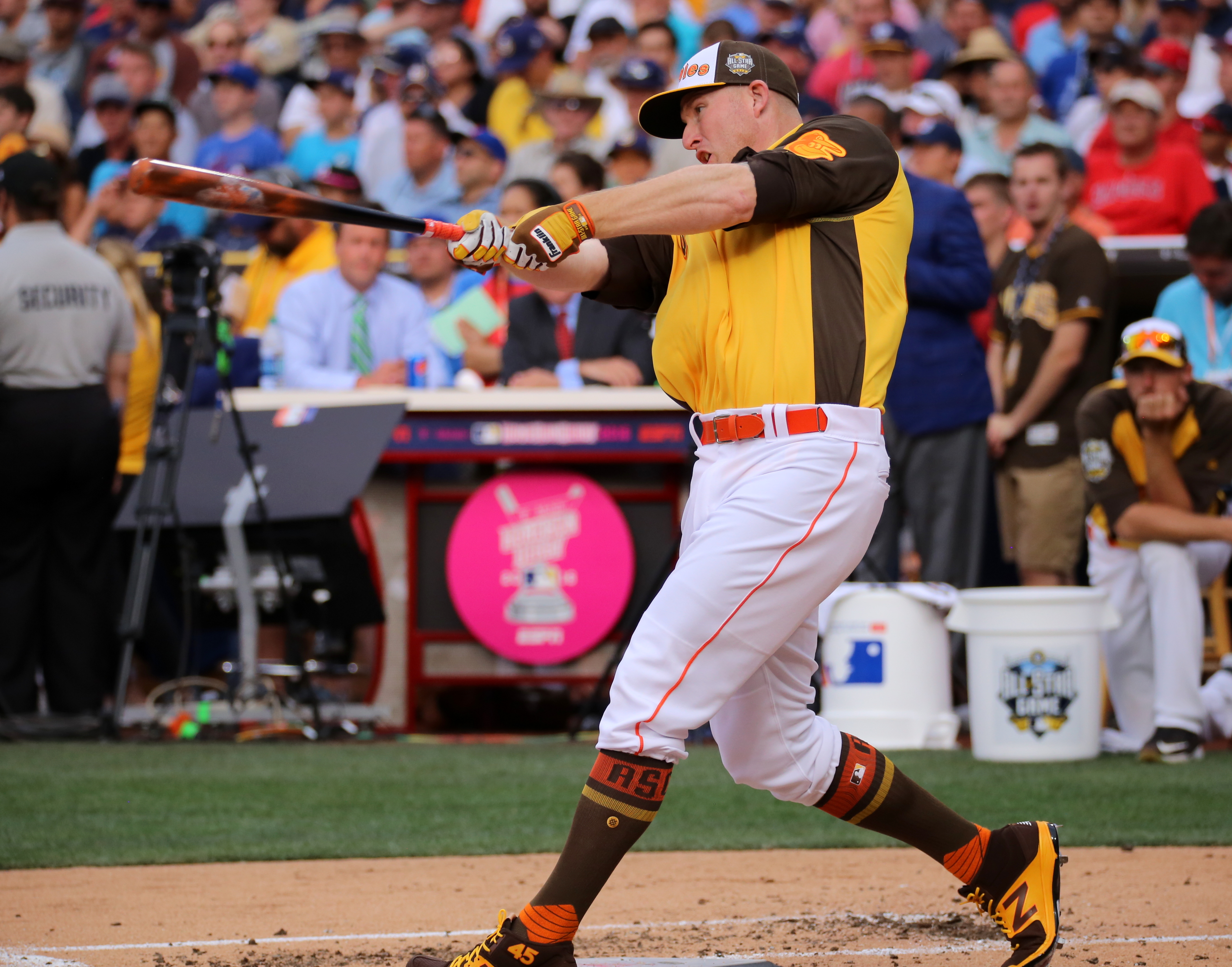 Mark Trumbo competes in semifinals of '16 T-Mobile #HRDerby.